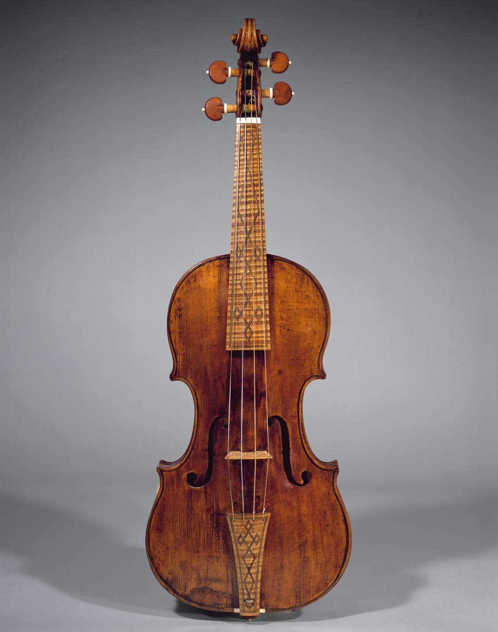 Italian (Cremona); Violin; Chordophone-Lute-bowed-unfretted